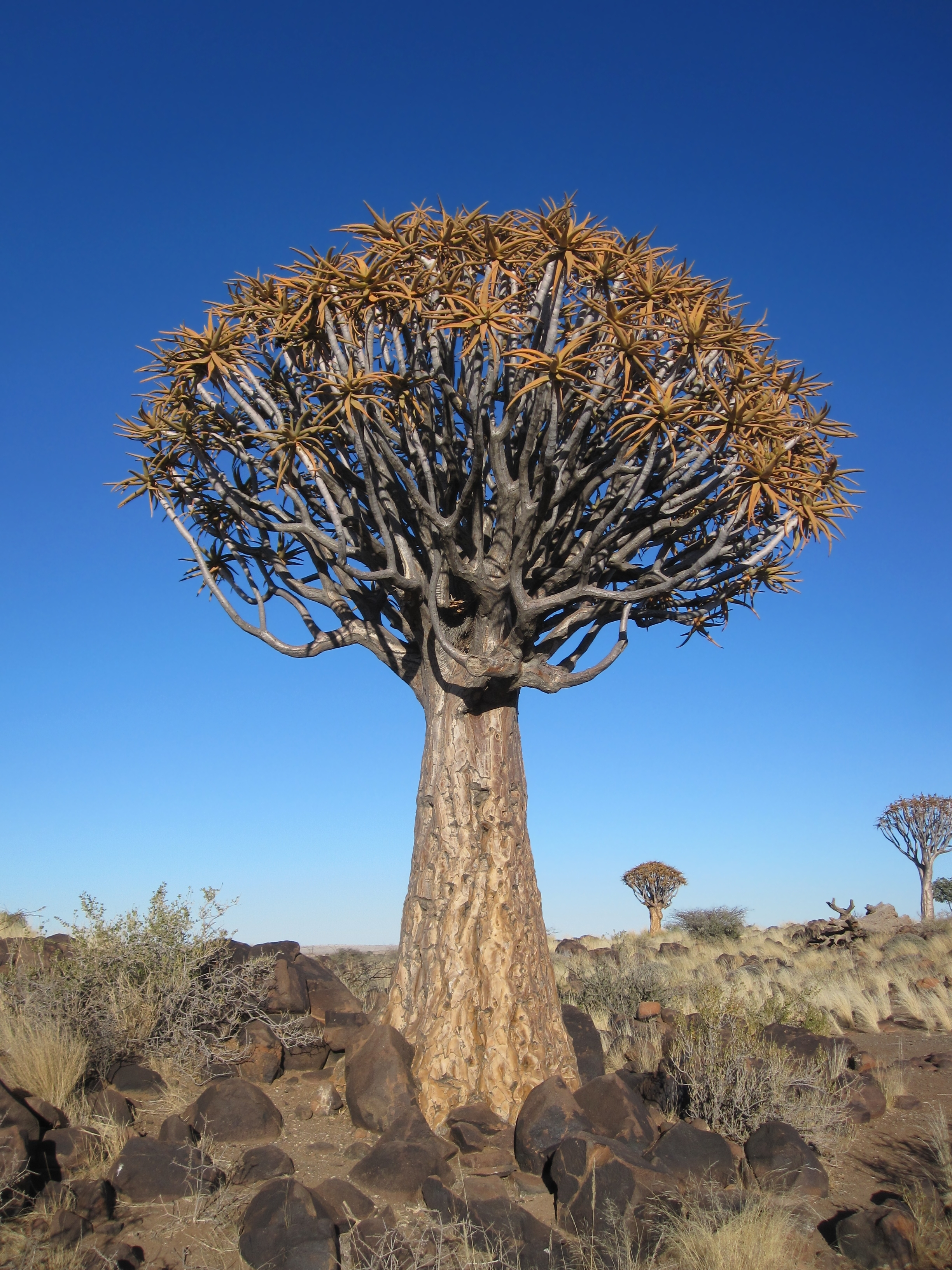 A Quiver tree (also known as Kokerboom) in Keetmanshoop, Namibia.